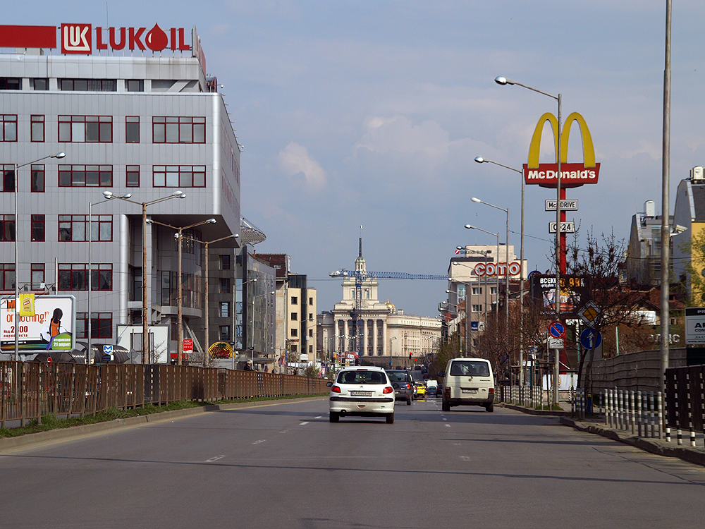 Lukoil Co. Headquarters on Boulevard Todor Alexandrov, Sofia, Bulgaria